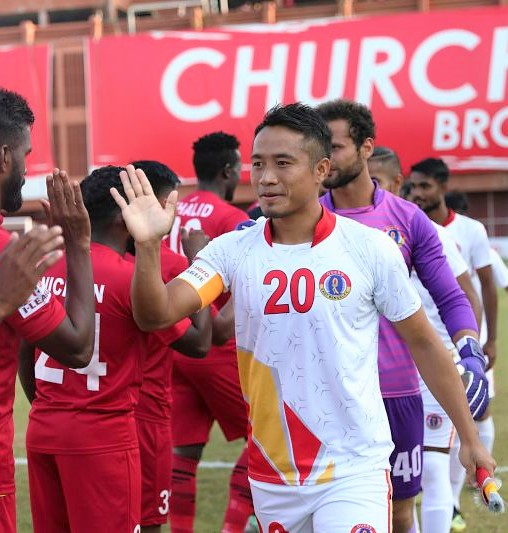 East Bengal captain Lalrindika Ralte.